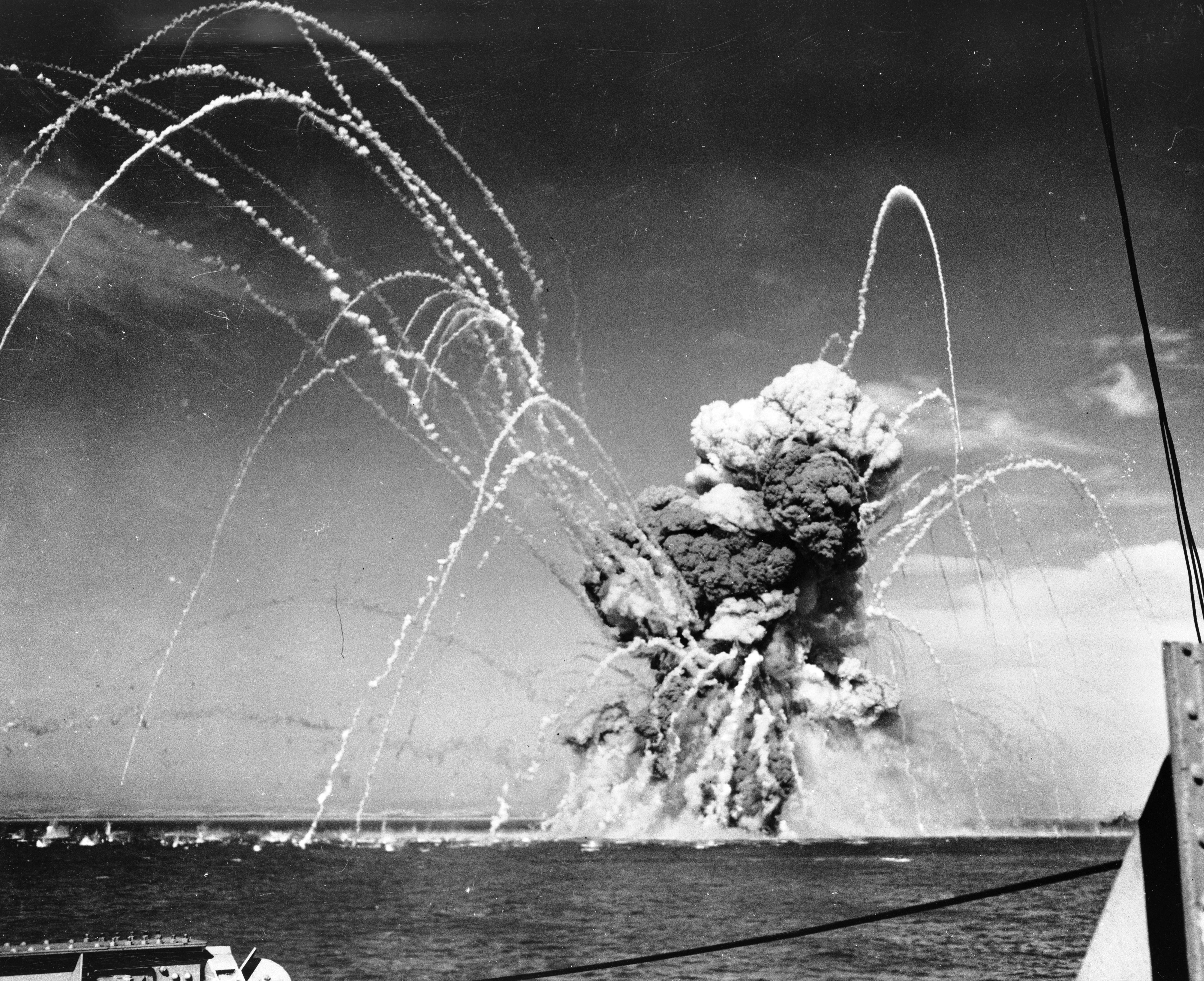 LC-USZ62-98980: Invasion of Sicily, Italy, July 9 – August 17, 1943. U.S. Liberty ship Robert Rowan explodes after being hit by German dive bombers off Gela, Sicily, July 11, 1943. (7/17/2015).